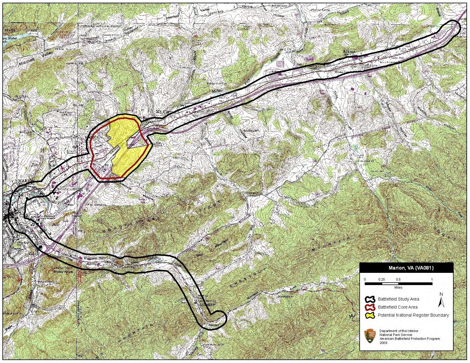 Map of battlefield core and study areas.